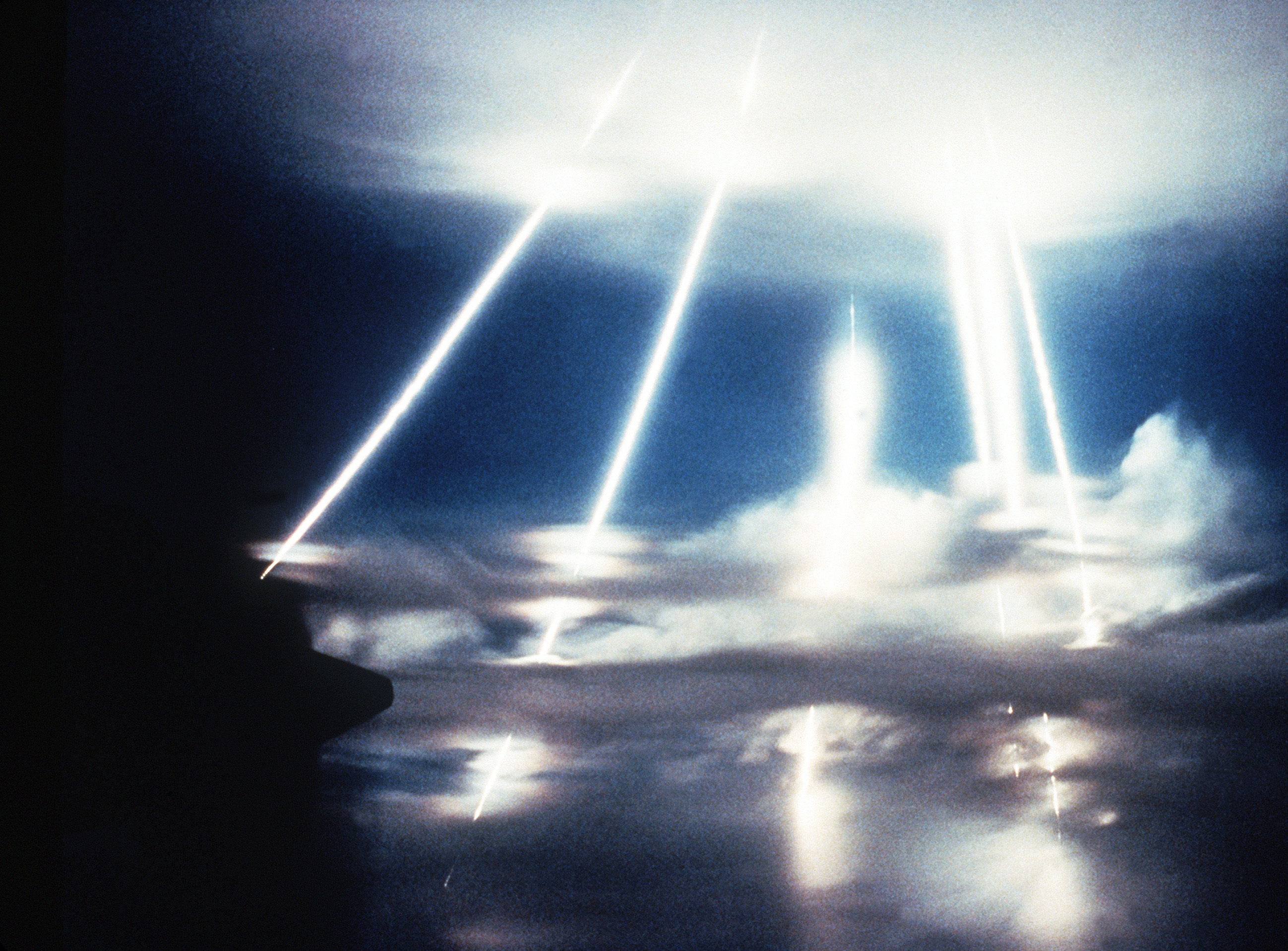 ID: DNST8506979 MX intercontinental ballistic missile re-entry vehicles pass through the clouds after a 4,130 nautical mile flight from Vandenberg Air Force Base, Calif.